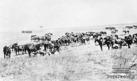 BEERSHEBA, PALESTINE. ?1917. C SQUADRON, 11TH AUSTRALIAN LIGHT HORSE REGIMENT RESTING BESIDE THEIR HORSES ON THE ROAD TO BEERSHEBA